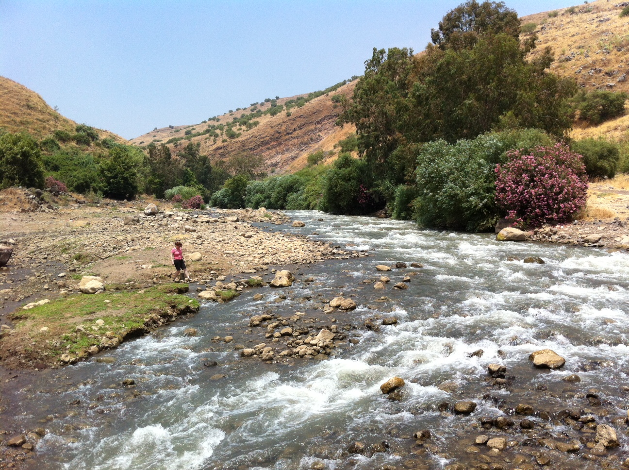 The Jorden River, Geography of Israel